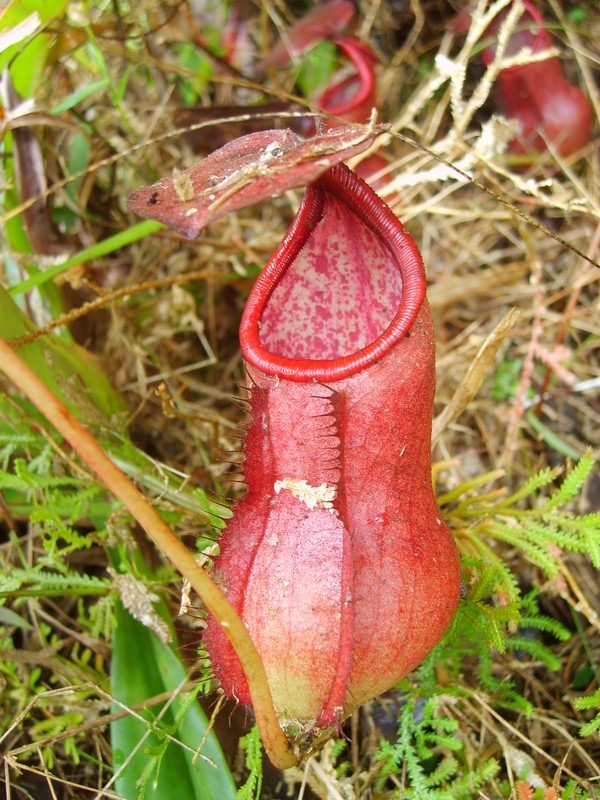 Rosette pitcher of Nepenthes bokorensis